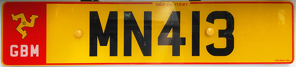 Vehicle registration plate of the isle of Man